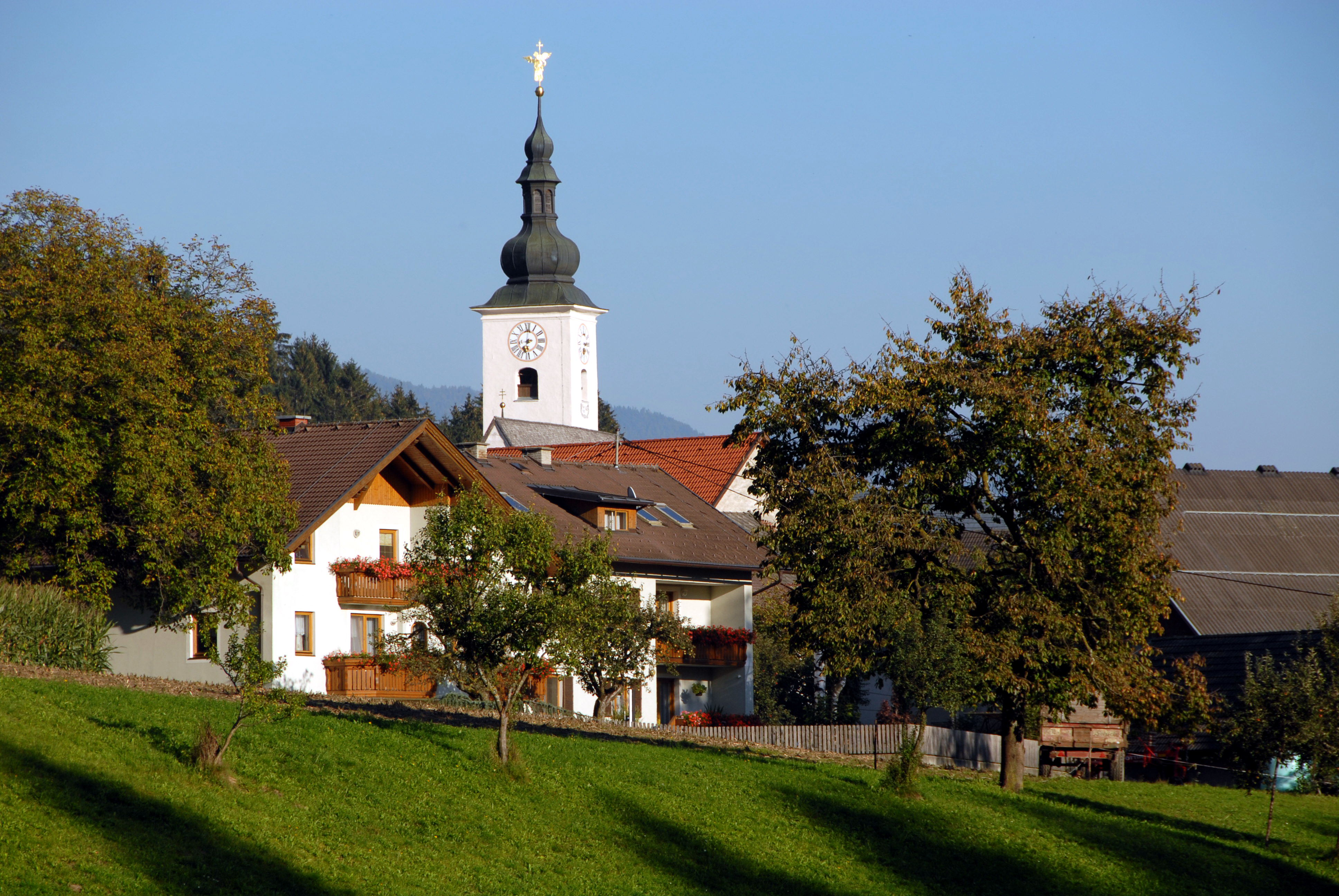 Locality Pusarnitz with the parish church Saint Michael, municipality Lurnfeld, district Spittal an der Drau, Carinthia / Austria / EU